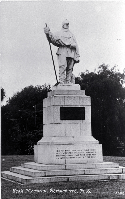 Robert Falcon Scott memorial, Scott Reserve, corner of Worcester Boulevard and Oxford Terrace, Christchurch.